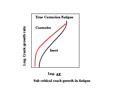 Crack growth behaviour in true corrosion fatigue